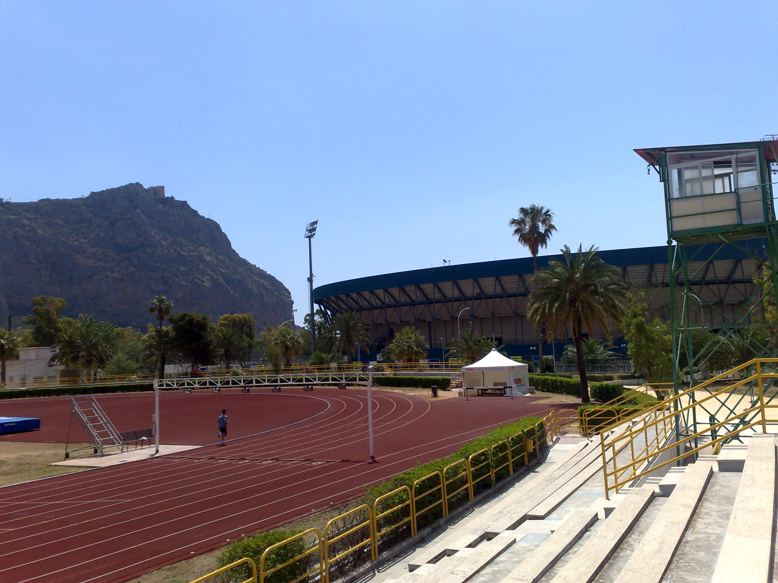 Palermo, Olimpic stadium